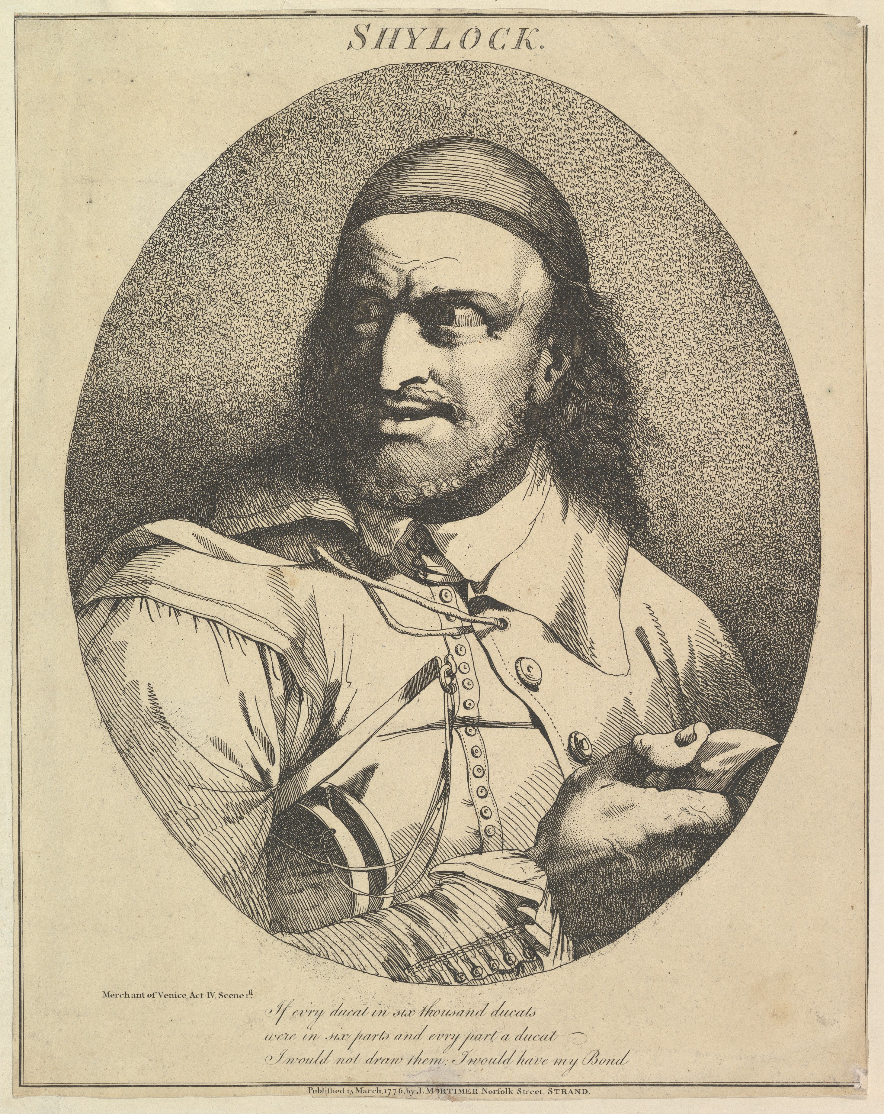 Print; Prints